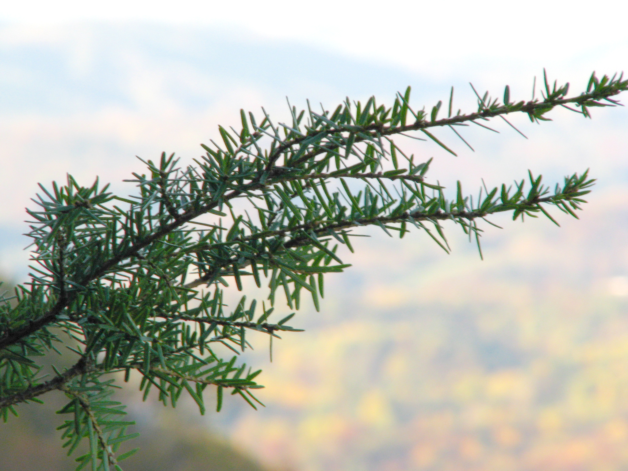 Tsuga caroliniana foliage. Stone Mountain, Blue Ridge Mountains, NC, USA